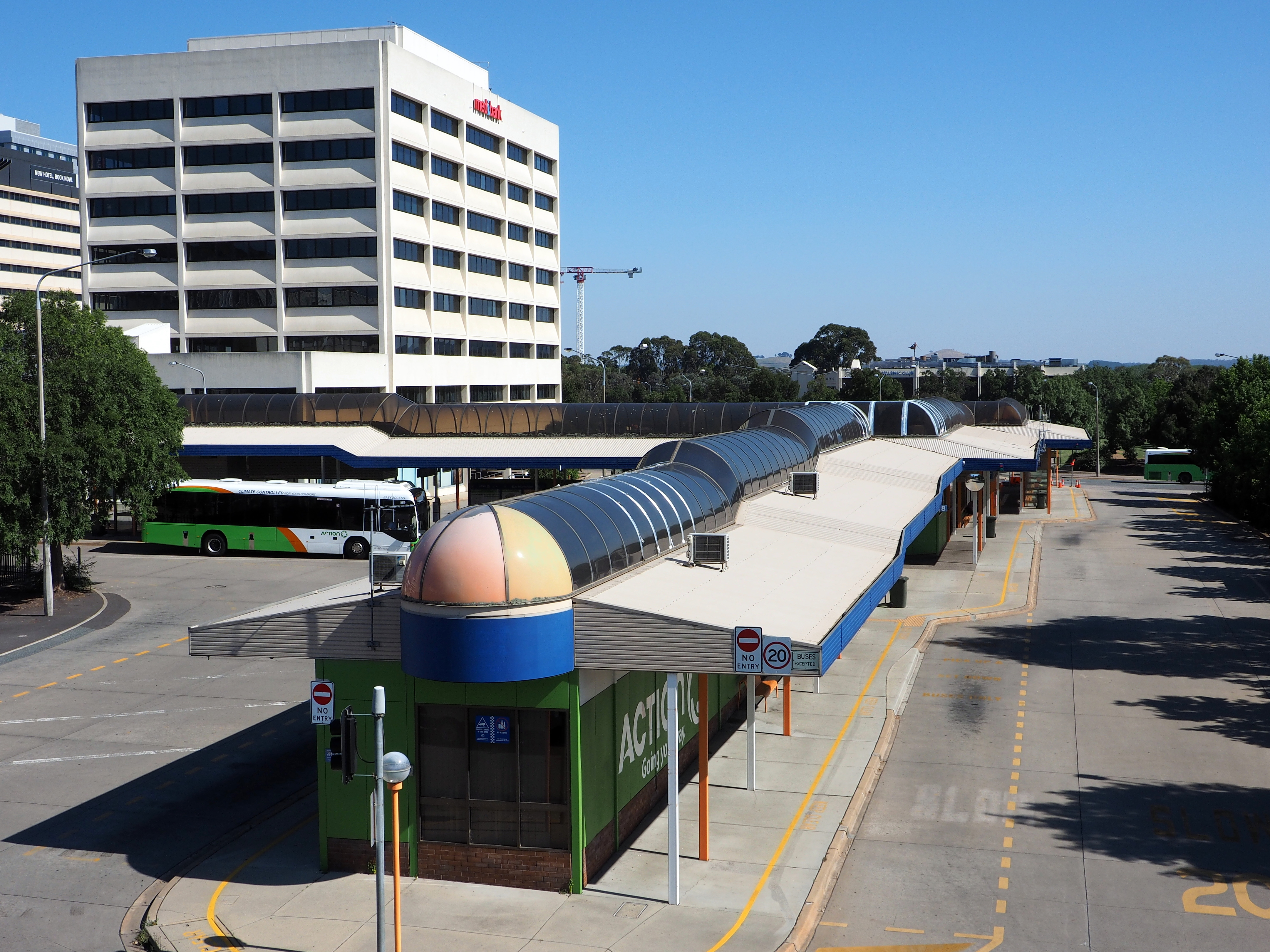 The inter-town bus Platforms of Woden Interchange